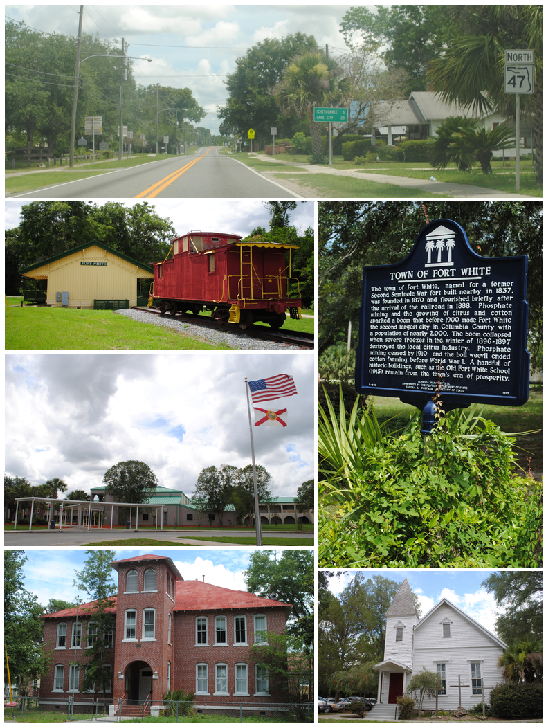 Photos I took around Fort White, Florida.